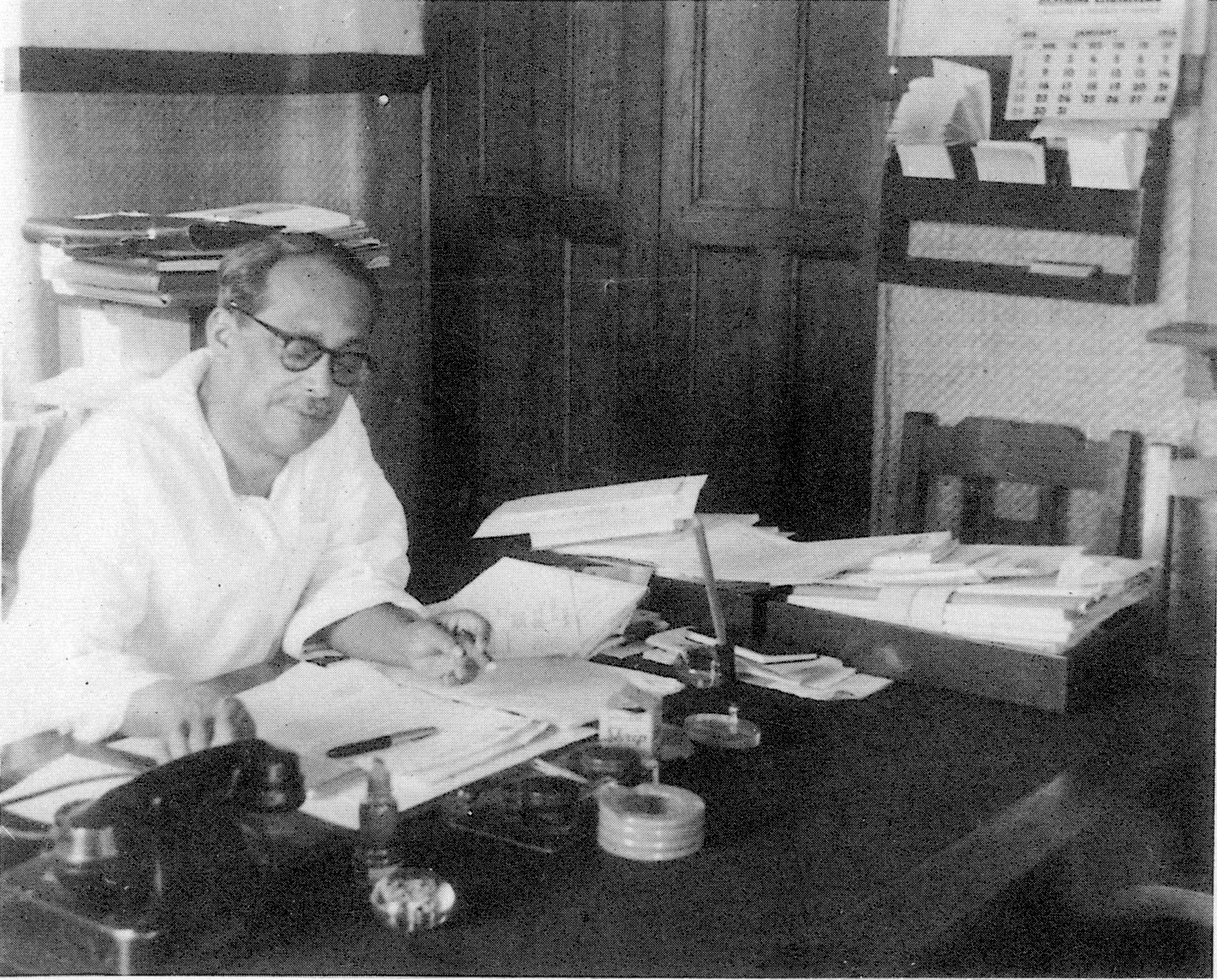 This picture shows Dr Bagchi at his desk in Santiniketan whilst he was the Vice Chancellor